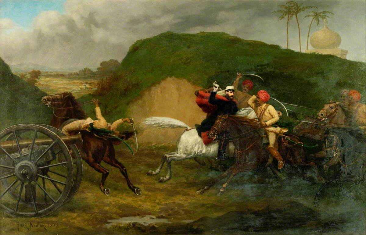 A painting from the Framed Works of Art collection at the National Library of wales.